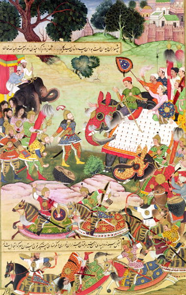 Artwork of the war of Khosrau against the Mazdakites.